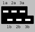 Pins of a Reichle-jack (swiss telephone jack)